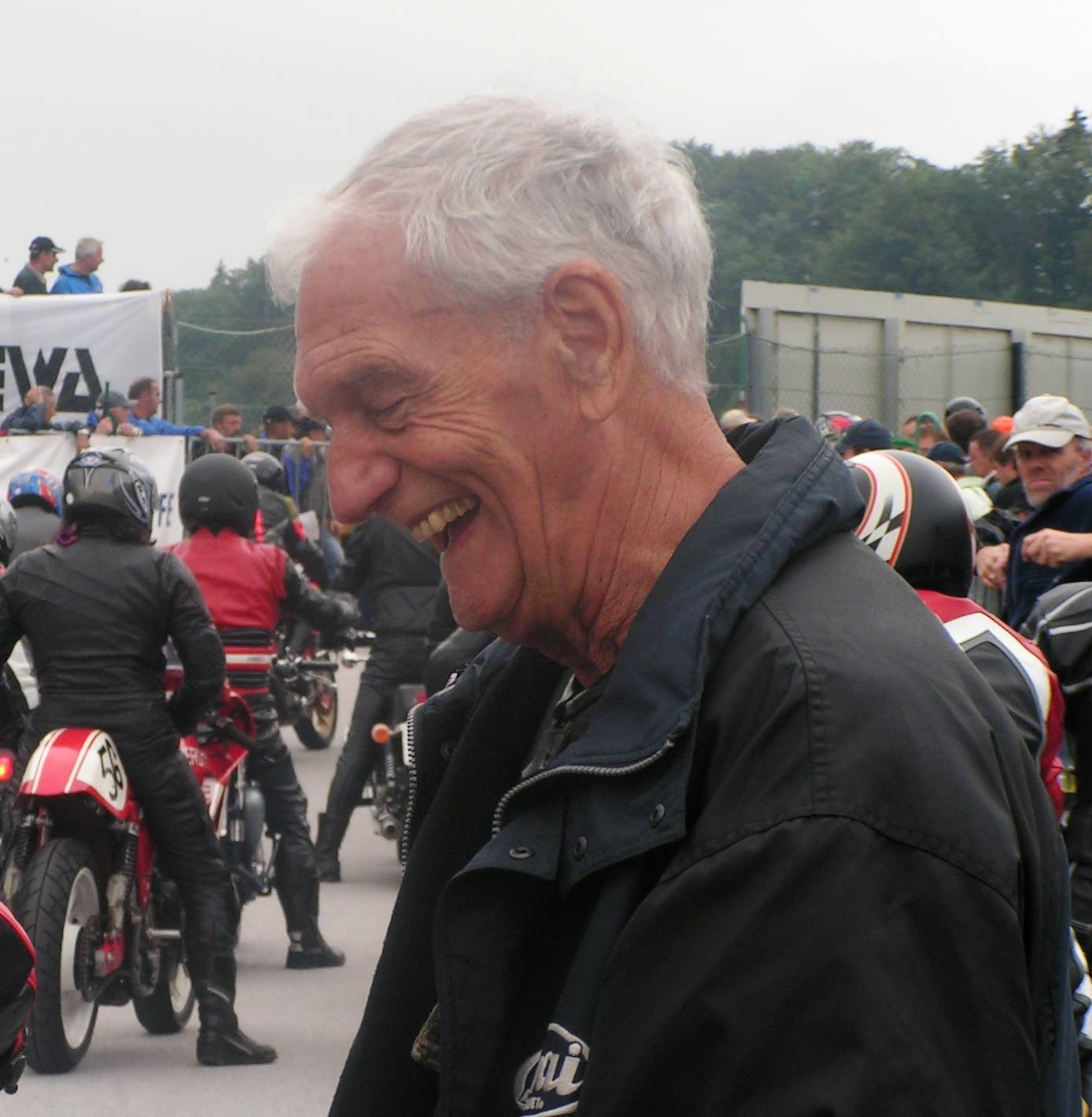 British motorcycle road racer Jim Redman on the Austrian Salzburgring.